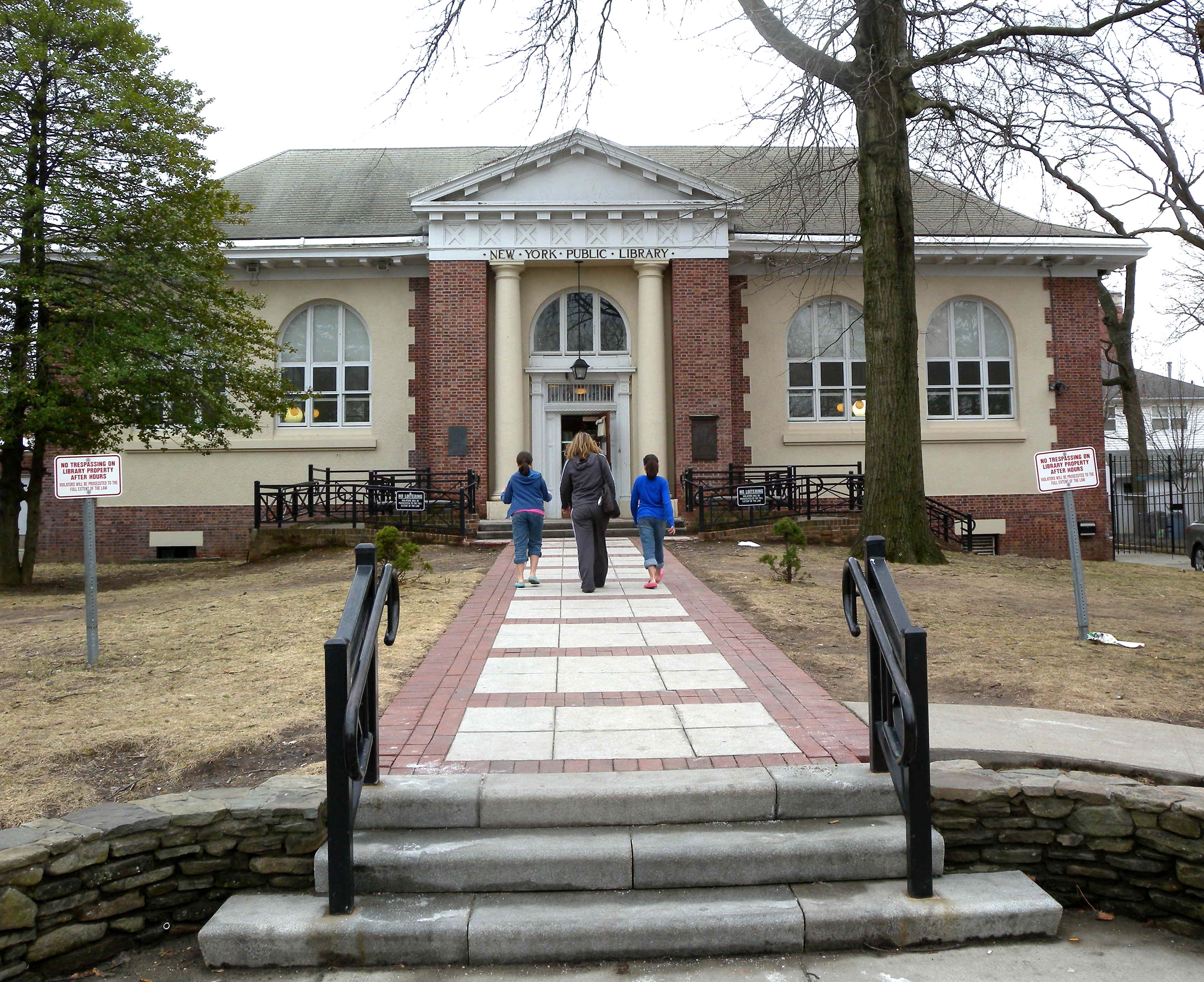 Looking southeast at Tottenville Branch of New York Public Library on a cloudy afternoon.